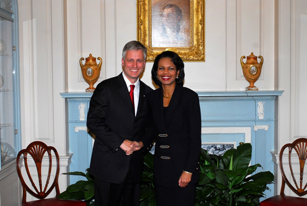 Washington, DC December 13, 2007 Robert C. O'Brien, Partner, Arent Fox LLP and Secretary of State Rice. State Dept. photo